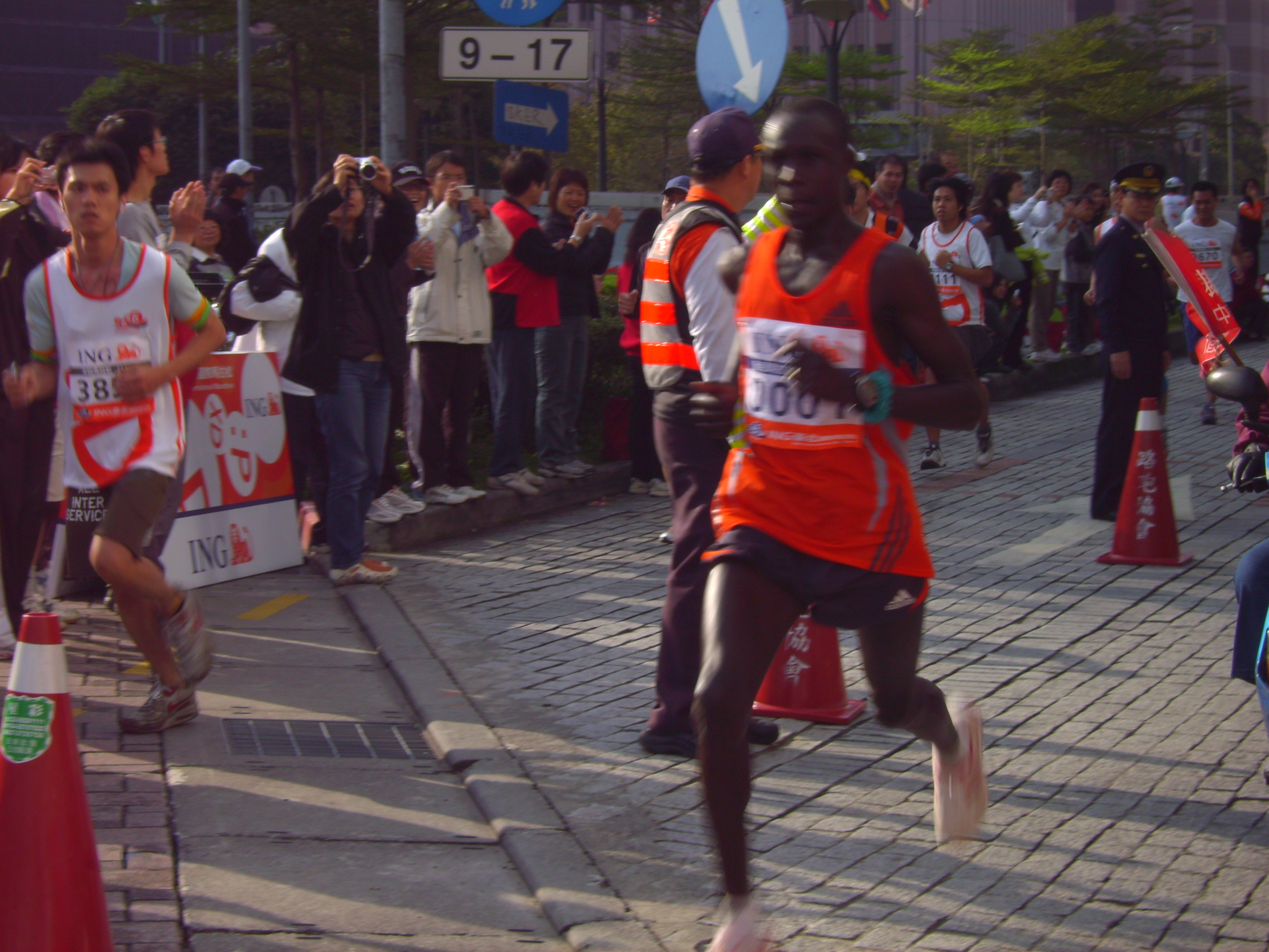 Kenyan marathon runner Luke Kibet is the Champion at 2005 & 2006 ING Taipei International Marathon.